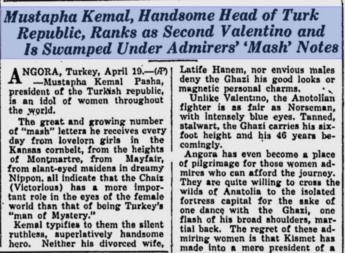 A newspaper article about the admiration of women from different parts of the world to Mustafa Kemal, the handsome leader of the Turkish Republic.